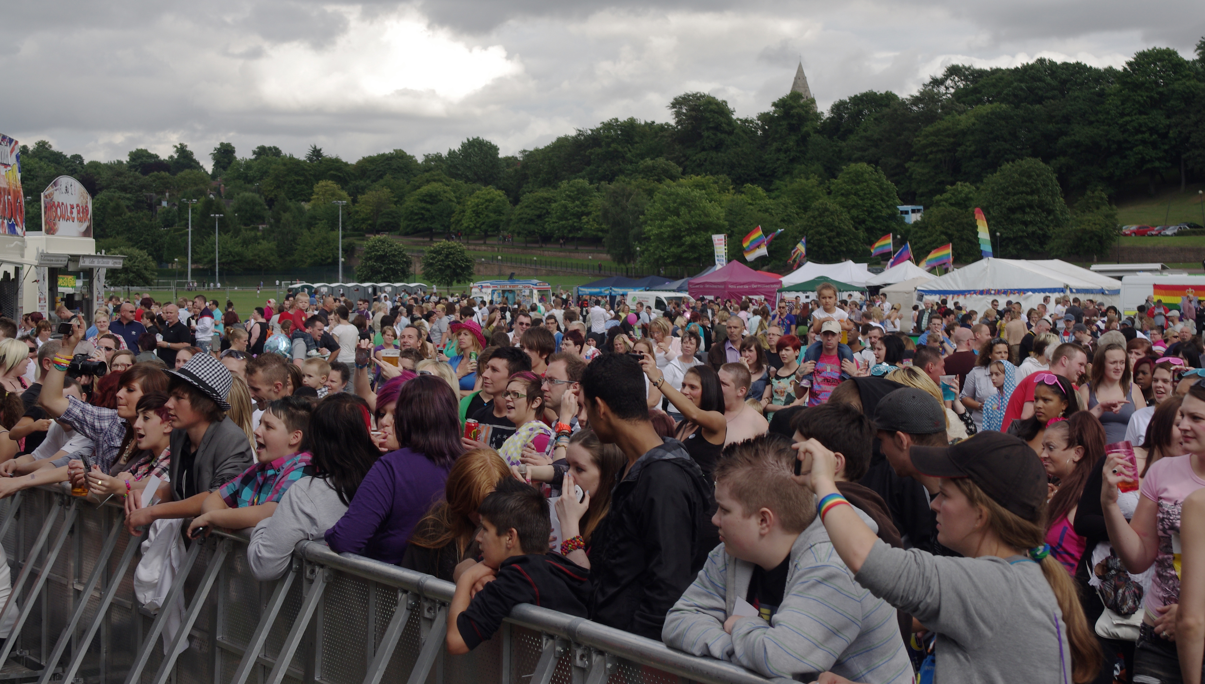 Crowds watch B-Desire at Nottingham Pride 2010.